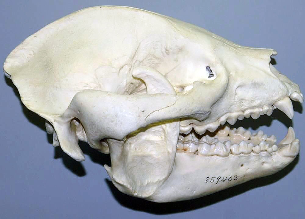 Location taken: Smithsonian National Museum of Natural History. Names: Ailuropoda melanoleuca (David, 1869), Bamboebear, Bamboo Bear, Beishung, Böyük panda, Da-xiong-mao, Dambuhalang panda, Dev panda, Didžioji panda, Gấu trúc lớn, Giant Panda, Granda pando, Great Panda, Großer Panda, Hatun panda, Hiidpanda, Hong-chun-bao, Isopanda, Jättepanda, Lielā panda, Ollphanda, Óriáspanda, Orjaški panda, Oso panda, Panda, Panda Bear, Panda bras, Panda géant, Panda gegant, Panda Gergasi, Panda gicanti, Panda gigante, Panda grond, Panda handi, Panda maior, Panda Mawr, Panda Mkubwa, Panda velká, Panda wielka, Panda-gigante, Pandabjörn, Panda_wielka, Pando, Parti-colored Bear, Pea kina, Reuzenpanda, Reuzepanda, Reuznpanda, Shash łizhin dóó łigaígíí, Ursul panda, Veliki panda, White Bear, Џиновска панда, Аварга хулсны баавгай, Бадӟым панда, Большая панда, Велика панда, Вялікая панда, Голяма панда, КӀудияб панда, Панда большая, Хъунасса панда, Үлкен панда, Մեծ պանդա, פנדה ענק, دب صيني, دیوقامت پانڈا, مۈشۈكئېيىق, پاندا, पाण्डा, प्रचंड पांडा, পান্ডা, பாண்டா, ഭീമൻ പാൻഡ, แพน